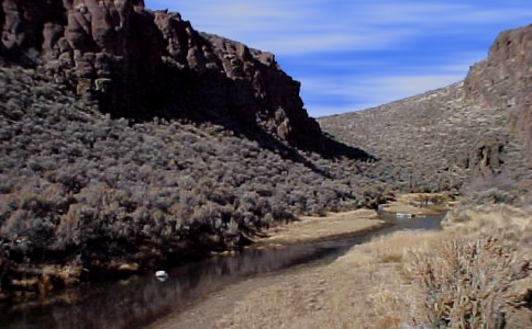 North Fork of the Humboldt River, looking west as it passes through Devil's Gap.